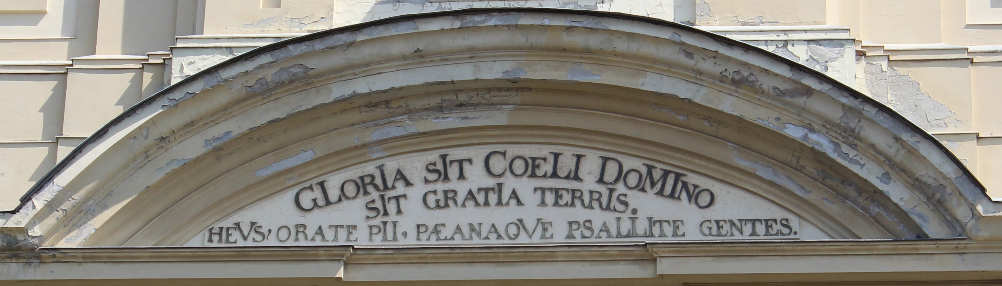 Chronogram of great evangelic church (Békéscsaba, Hungary).